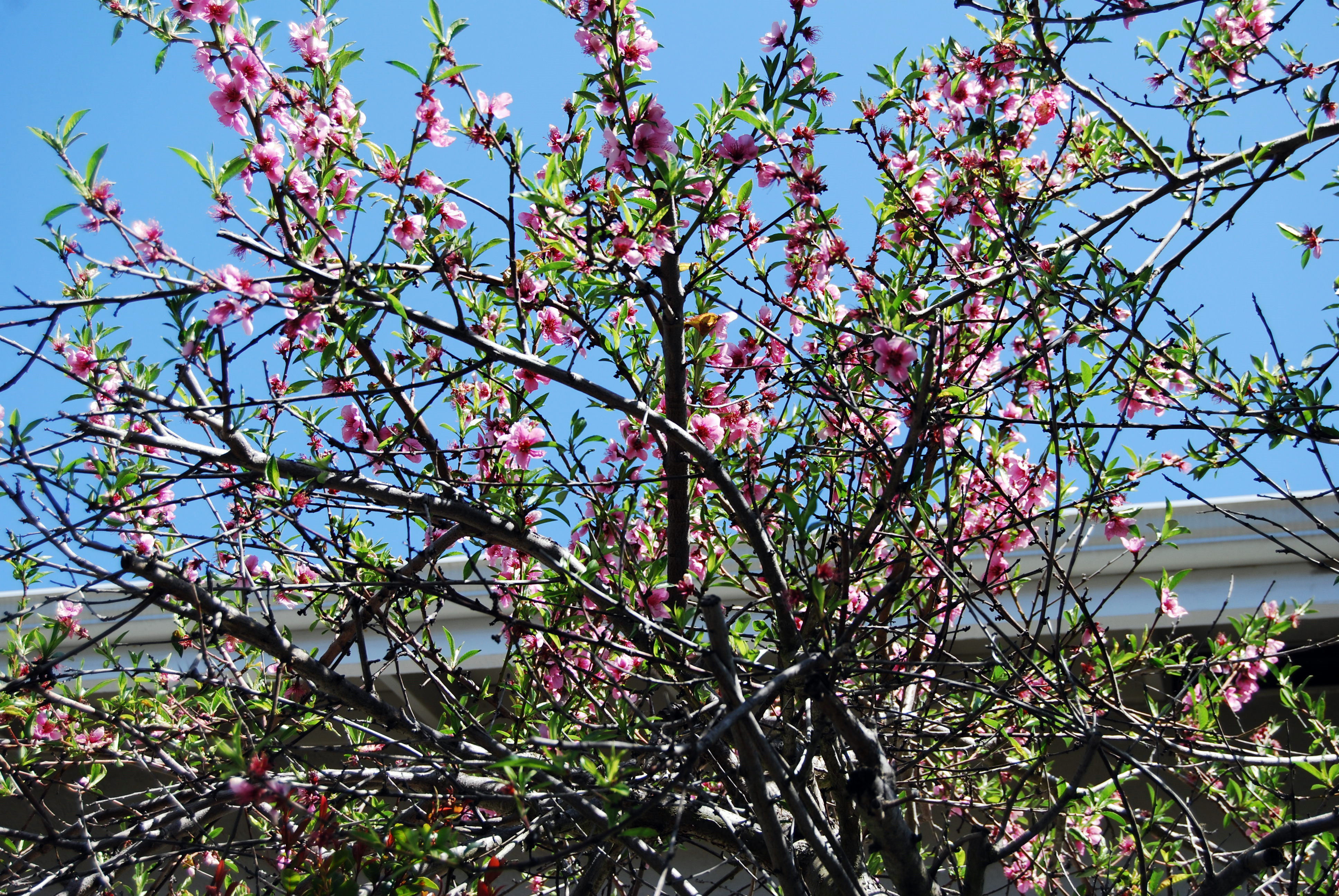 A Peach tree in blossom.